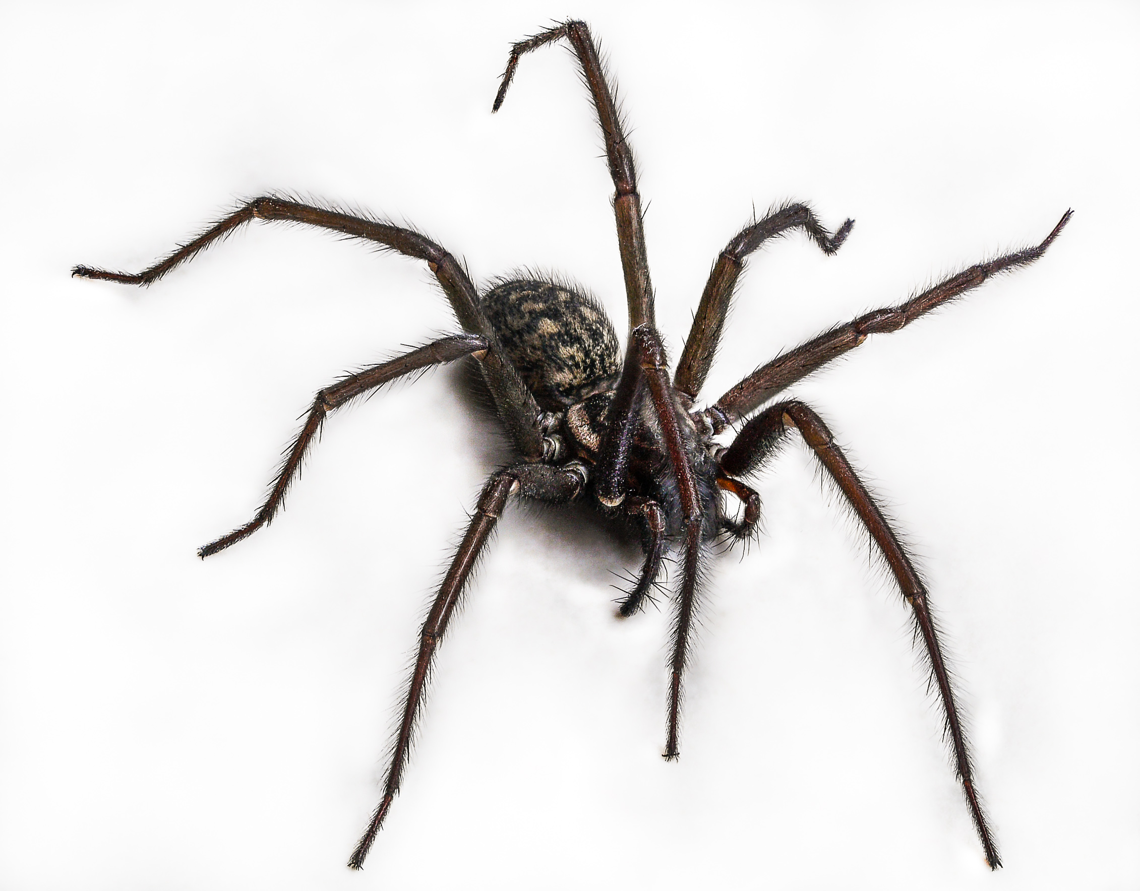 Female Tegenaria atrica spider